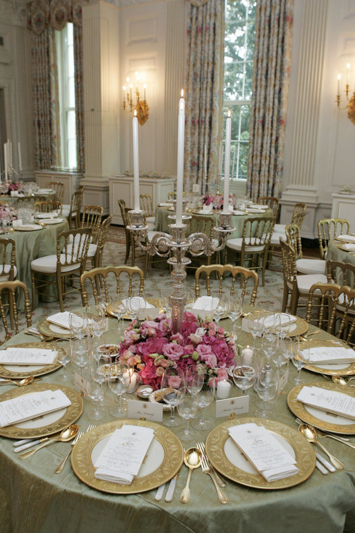 Table setting in White House State Dining Room.